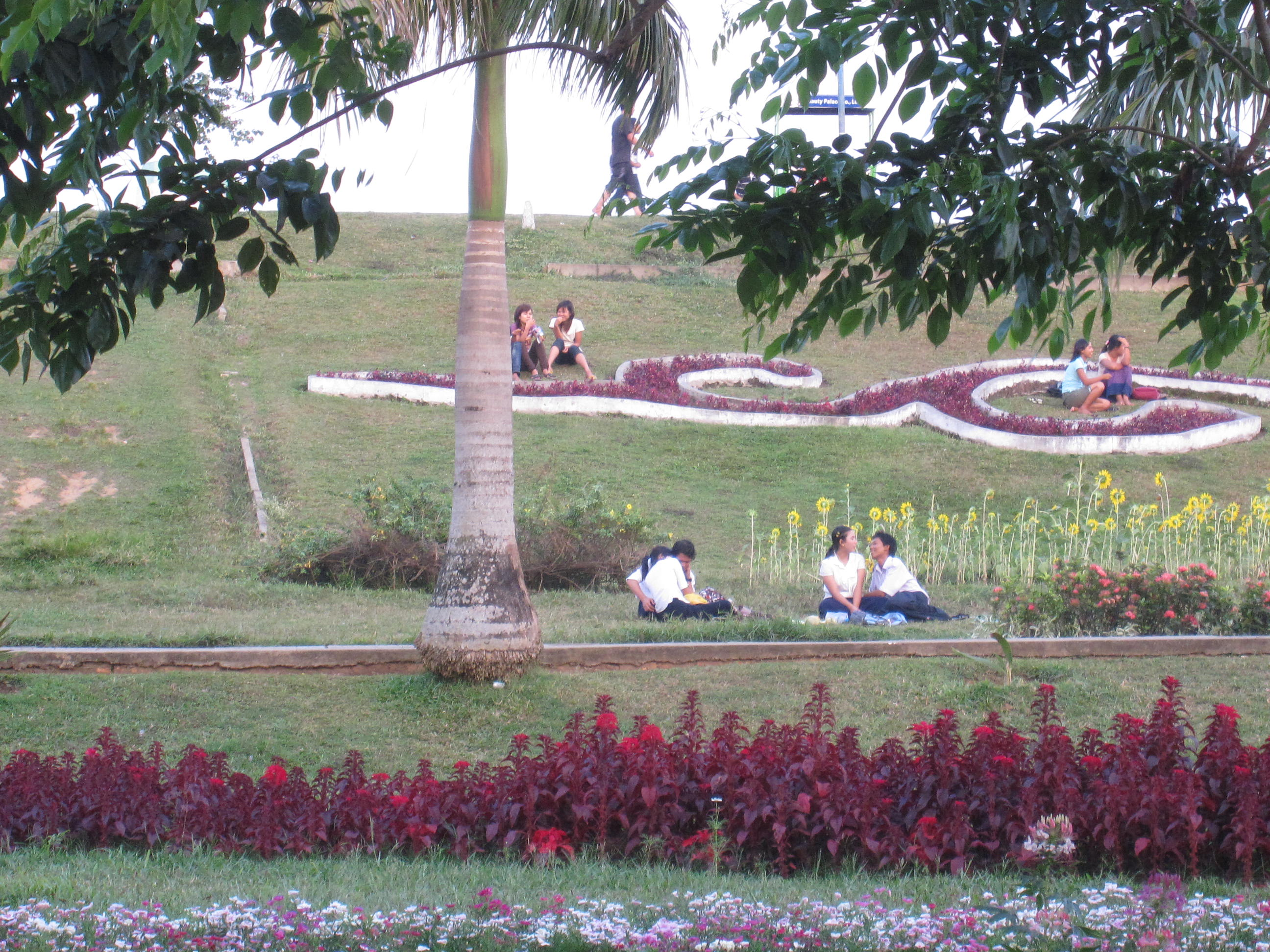 Inya Lake Embankment Garden, Yangon, Burma